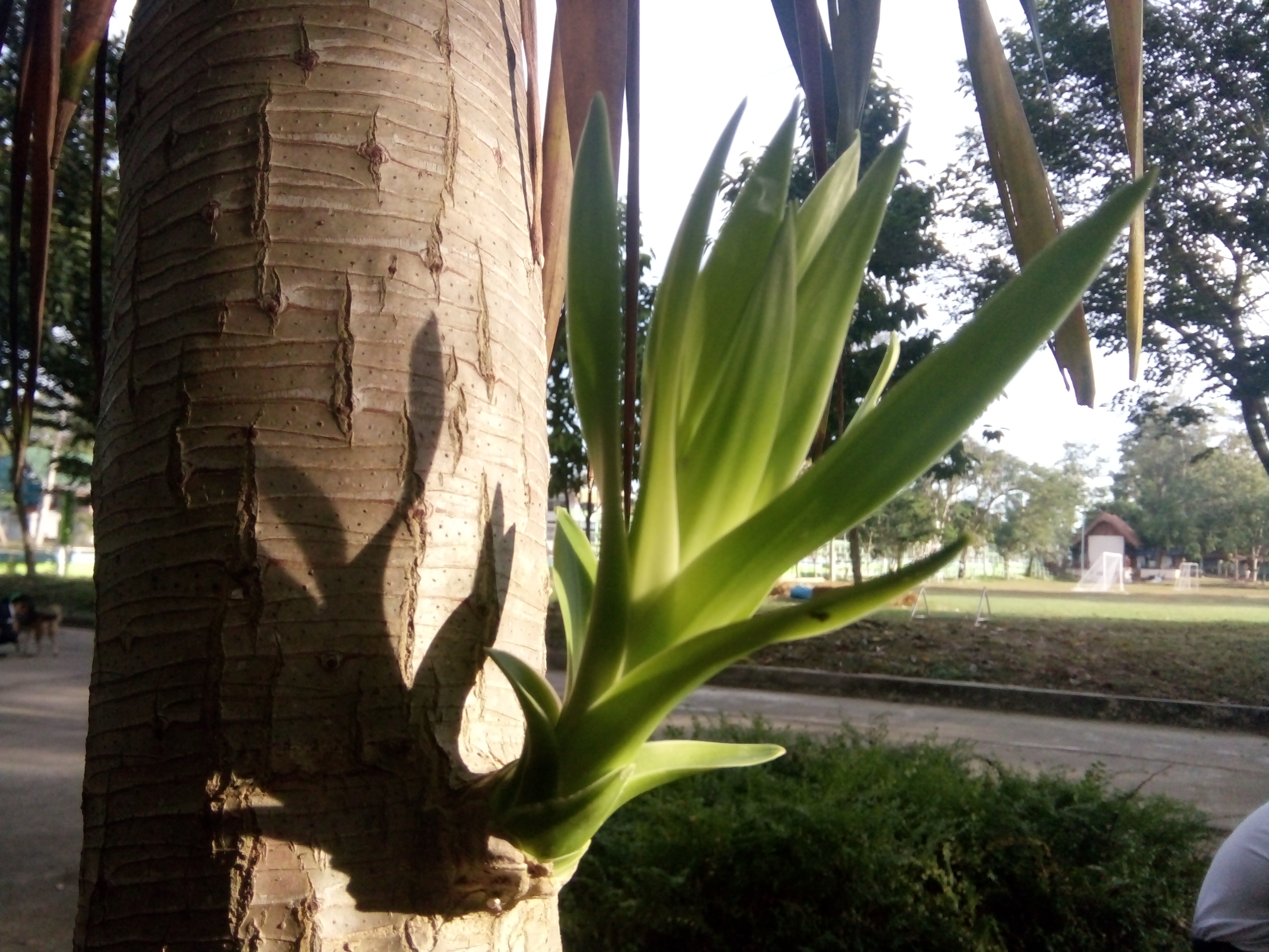 Dracaena cochinchinensis (Lour.) S.C.Chen.